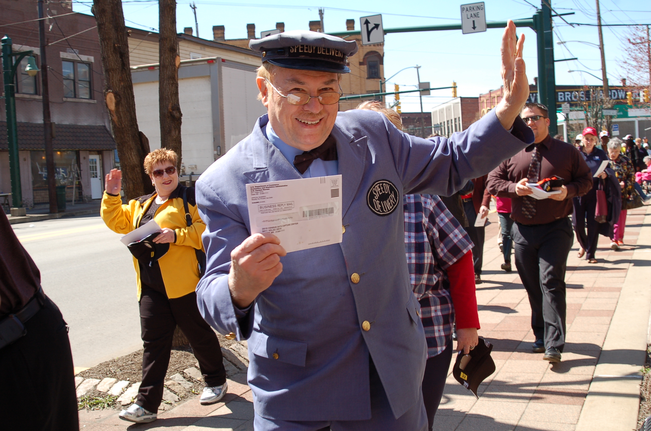 Mr. McFeely ("Speedy Delivery"), from the popular PBS childrens' series, Mister Rogers' Neighborhood, leads a group to the post office to hand deliver their completed 2010 Census forms during the "Count Me In In 2010 Rally" in Homestead, PA.